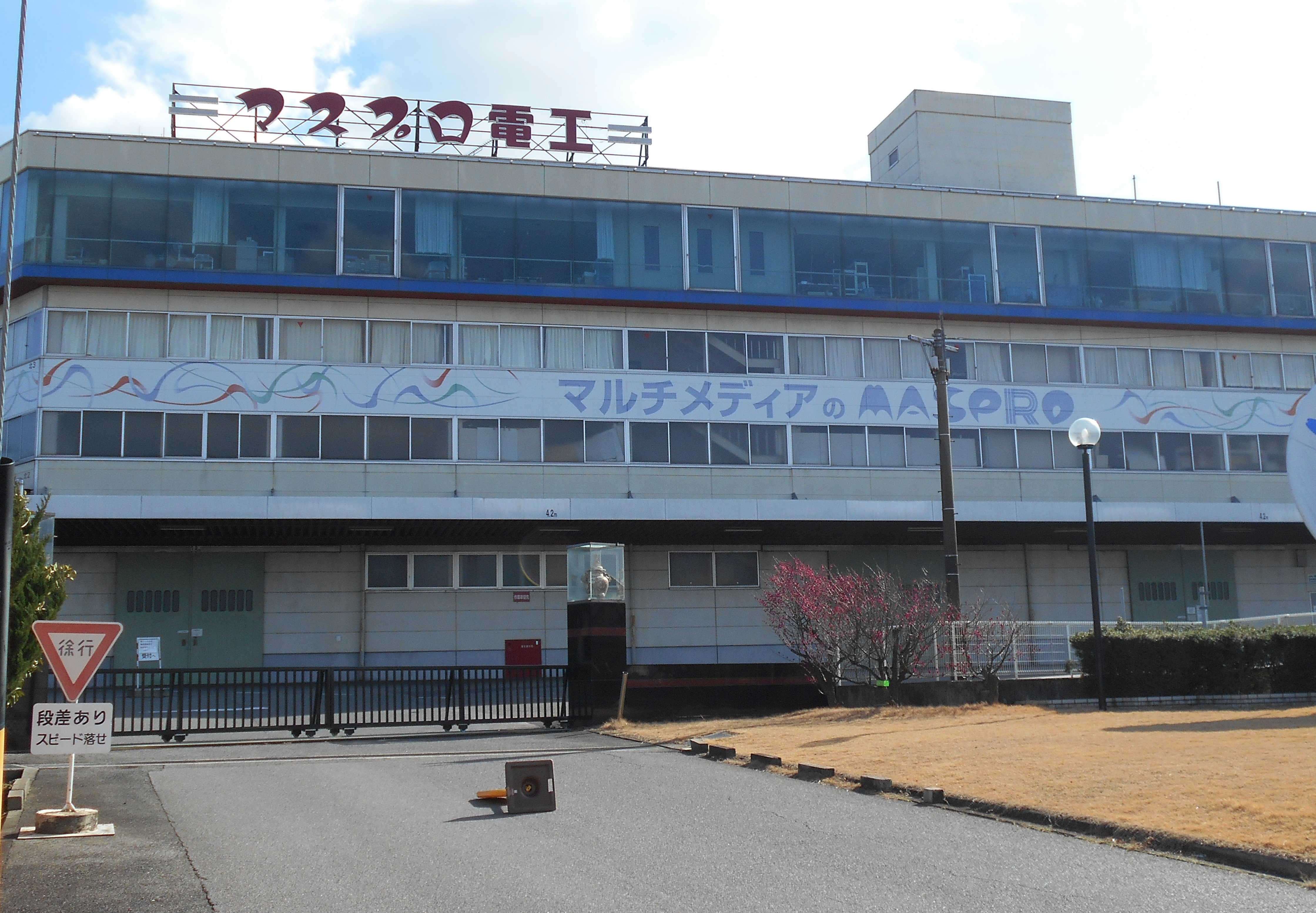 Maspro Denkoh Corp. Headquarter Office (Nissin city, Aichi prefecture. 21 February 2016)